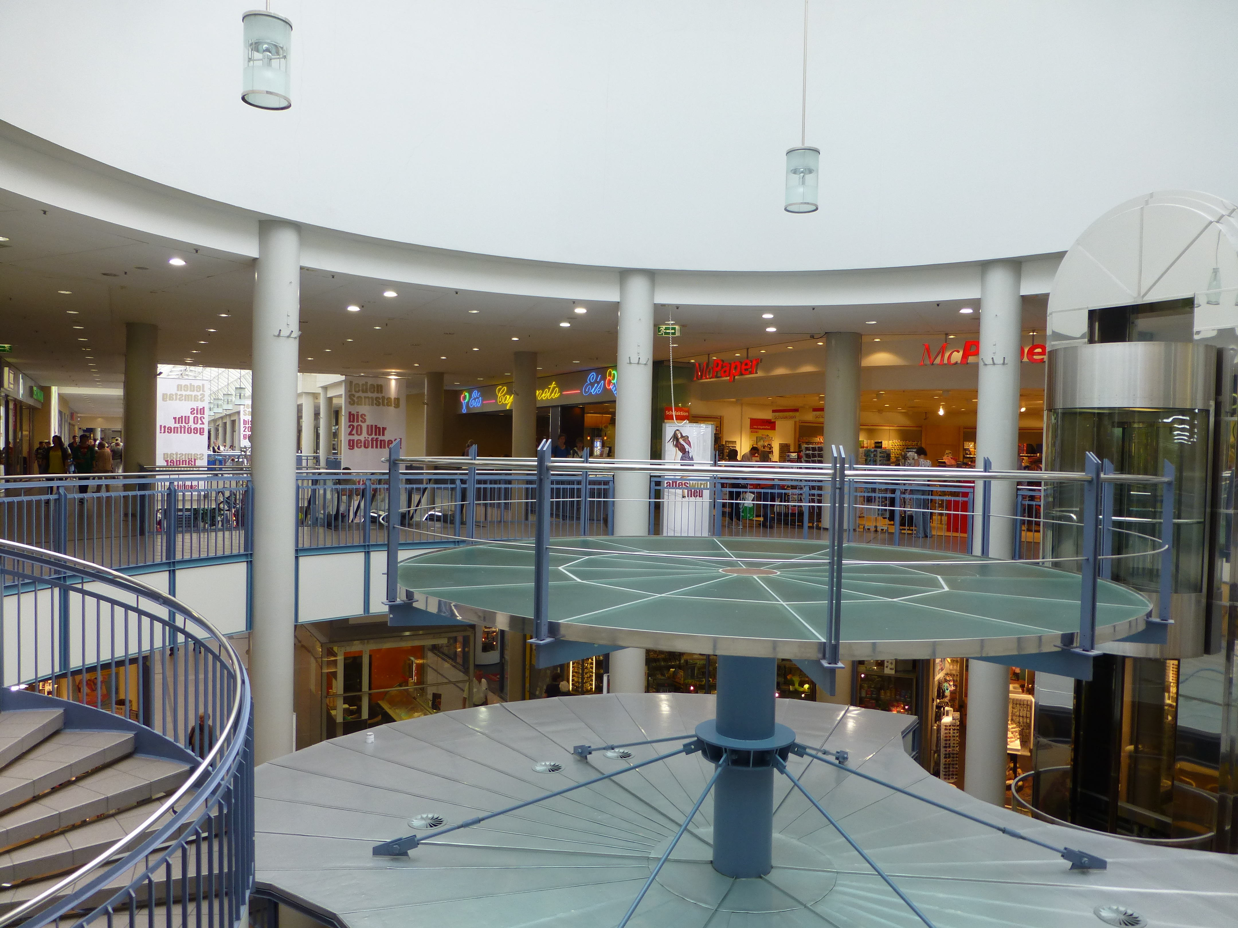 Inside Sophienhof shopping mall in Kiel, Germany.